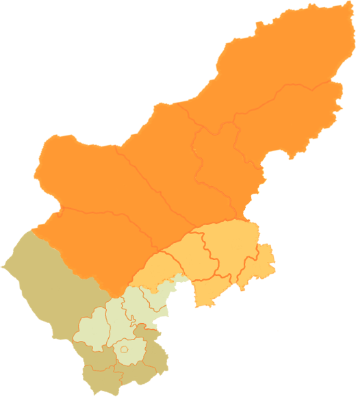 Map of administrative subdivisions of Xilingol League and Ulanqab in which Chakhar Mongolian is spoken. Based on Ulanqab mcp.png, Xilin Gol mcp.png and the info on Chakhar Mongolian.